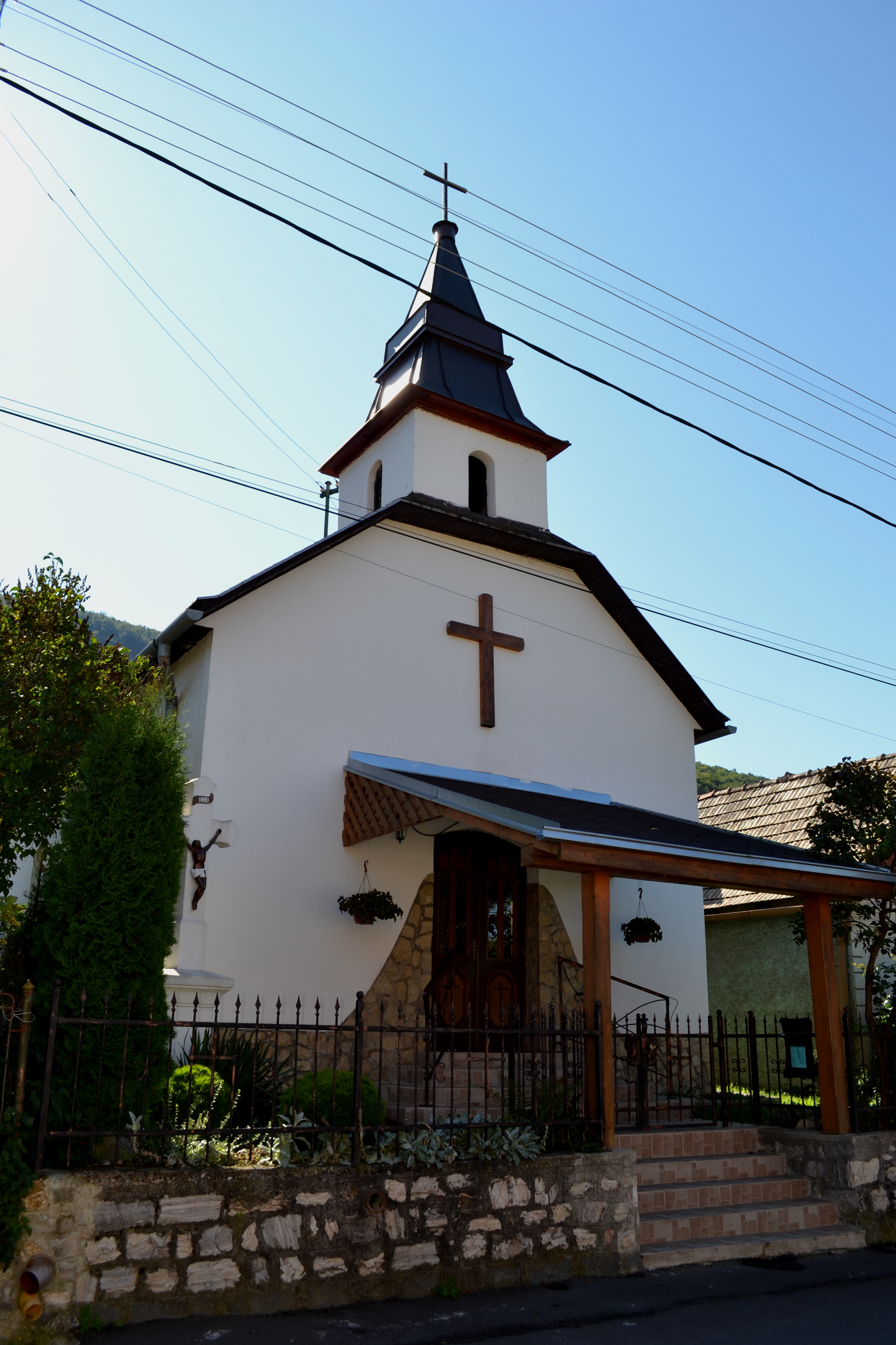 Roman Catholic Church of St. Peter and Paul in Šiatorská BukovinkaSlovenčina: Rímskokatolícky kostol sv. Petra a Pavla v Šiatorskej Bukovinke